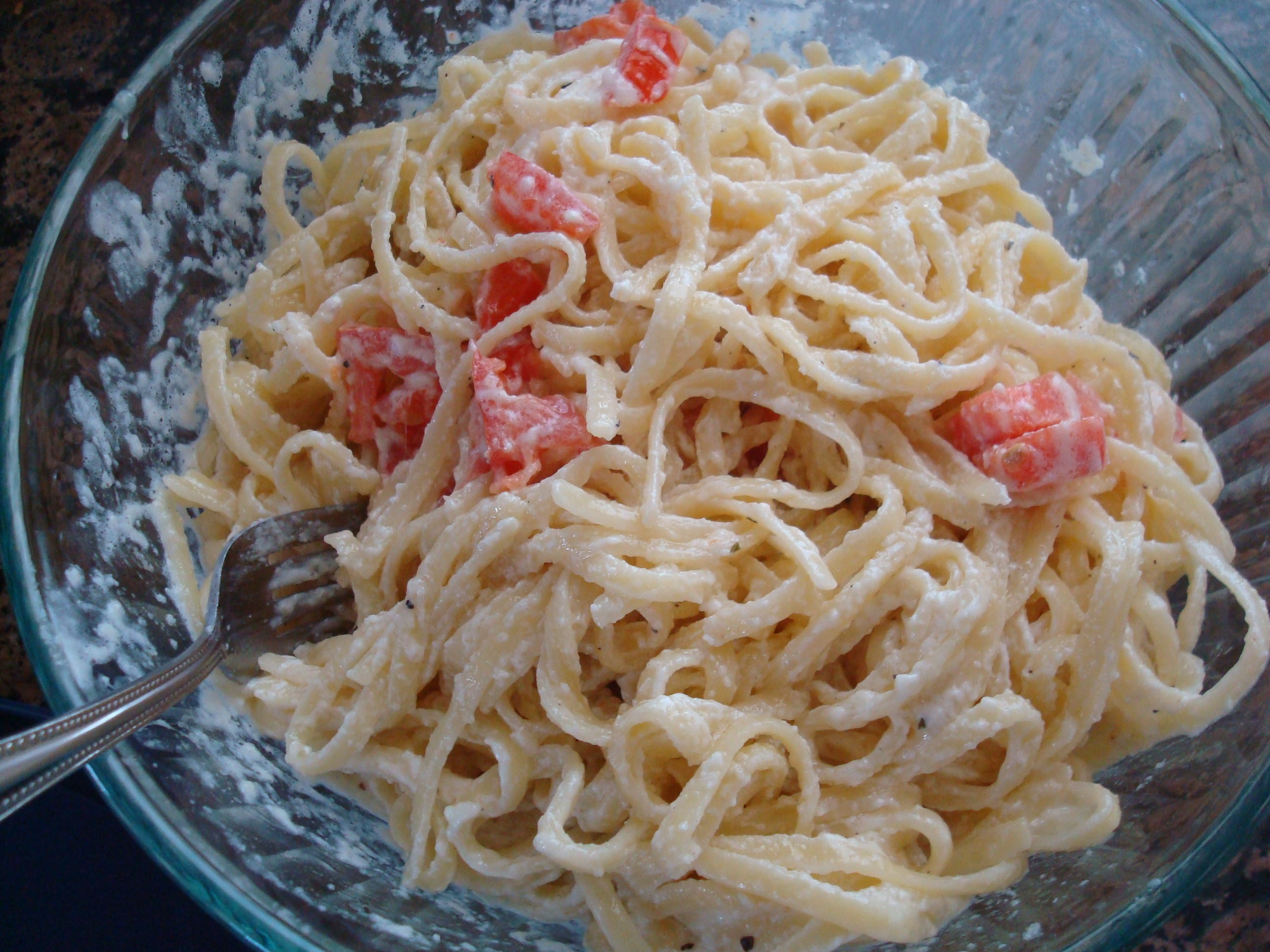 I like it when the cheese starts to stick. That's the look of great food.